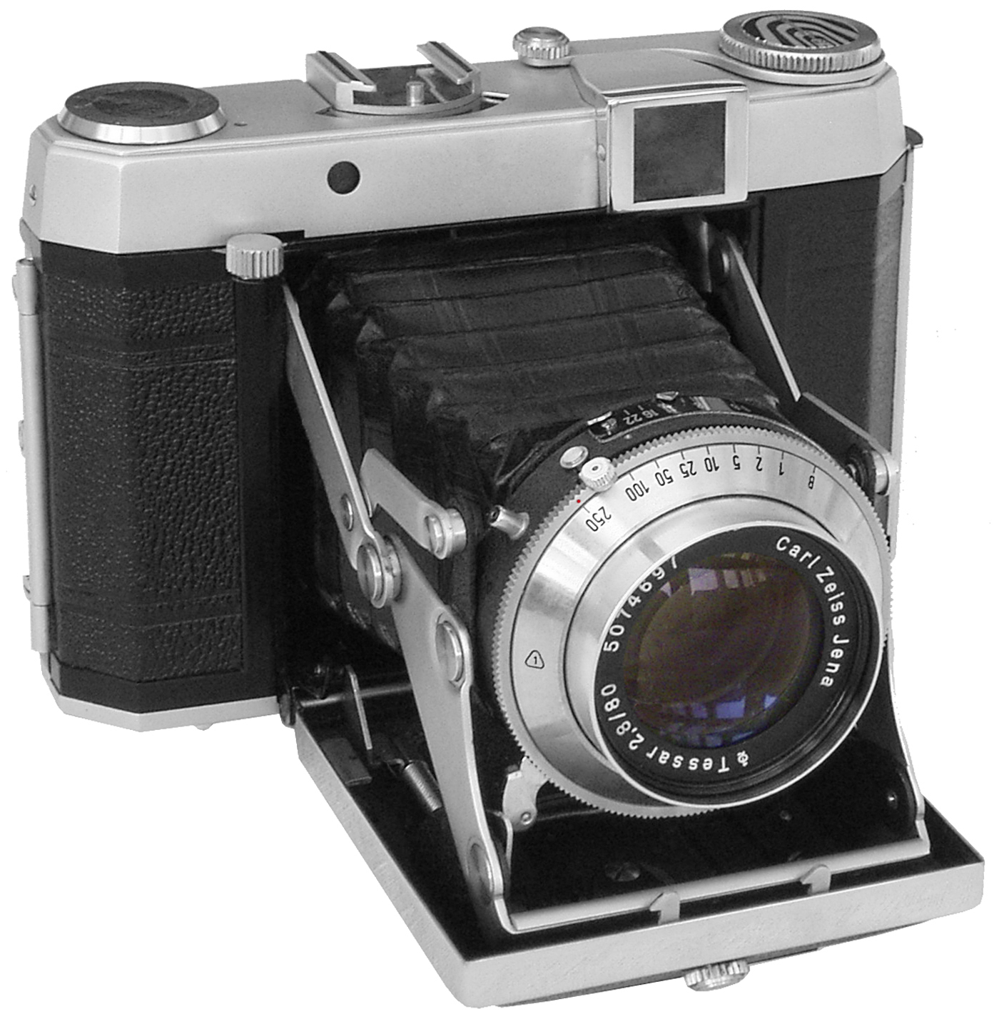 Certo 6 medium format folding camera.